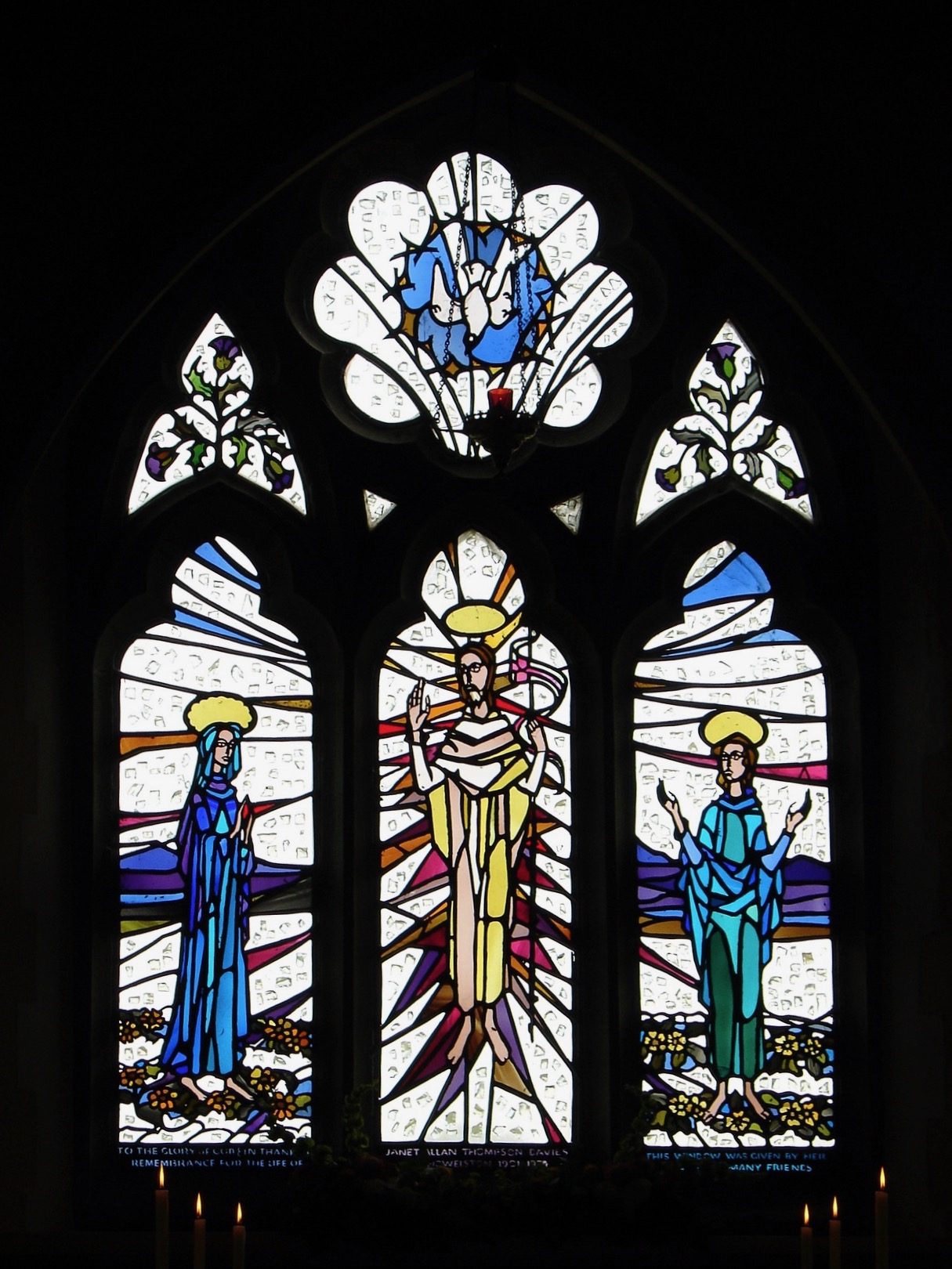 Stained-glass window depicting the Risen Christ with Virgin Mary and St John. East wall of St Mary Church, Talbenny, Pembrokeshire. The artist is Frank Roper (1914-2000)